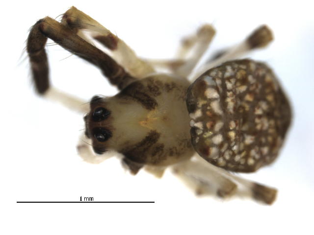 Gea heptagon